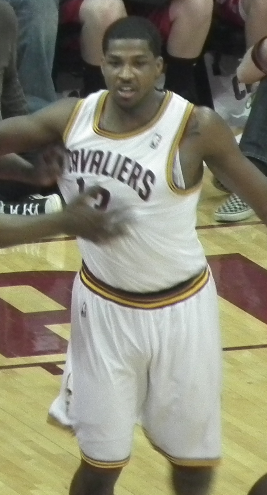 Tristan Thompson of the Cleveland Cavaliers